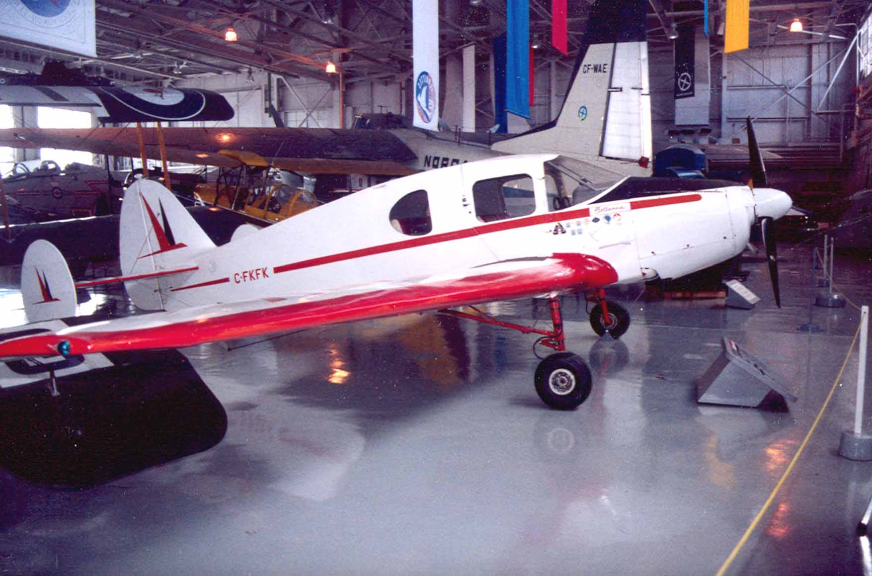 Bellanca Cruisair C-FKFK at the Western Canada Aviation Museum, Winnipeg.